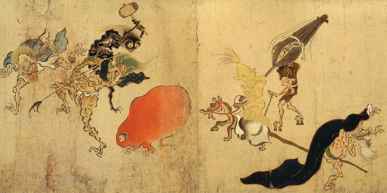 Tsukumogami (付喪神, artifact spirits) from the Hyakki-Yagyō-Emaki (百鬼夜行絵巻, the picture scroll of the demons' night parade)